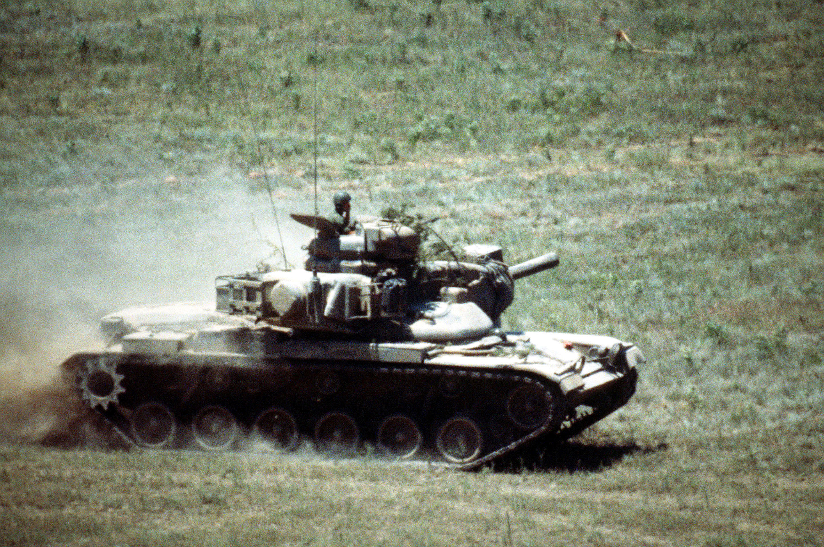 An M60A2 Main Battle Tank (MBT) maneuvers into position on the firing range during a firepower demonstration for President Carter. Location: FORT HOOD, TEXAS (TX) UNITED STATES OF AMERICA (USA)